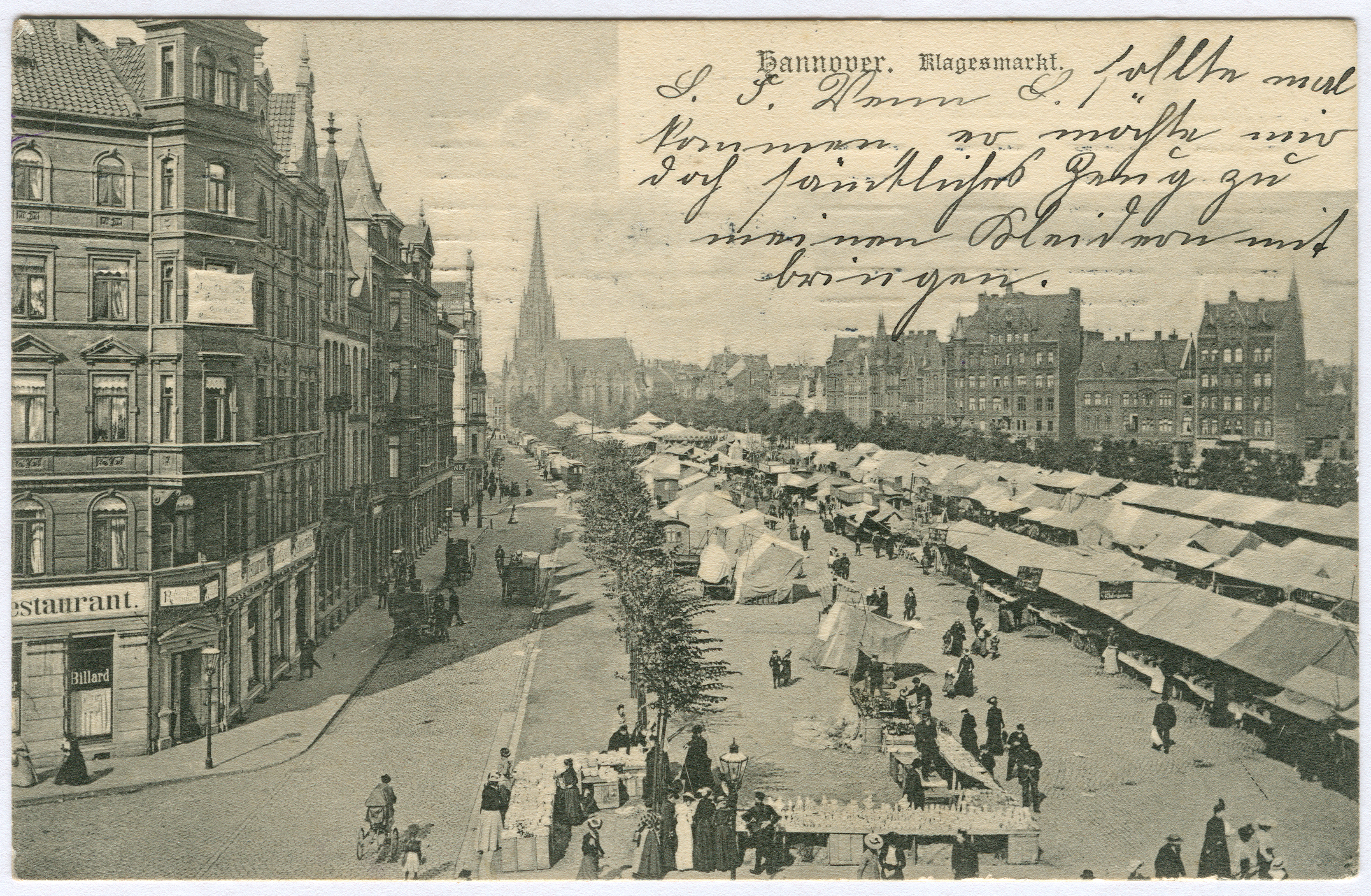 Hanover; market on the the place "Klagesmarkt", in the back the church Christuskirche.